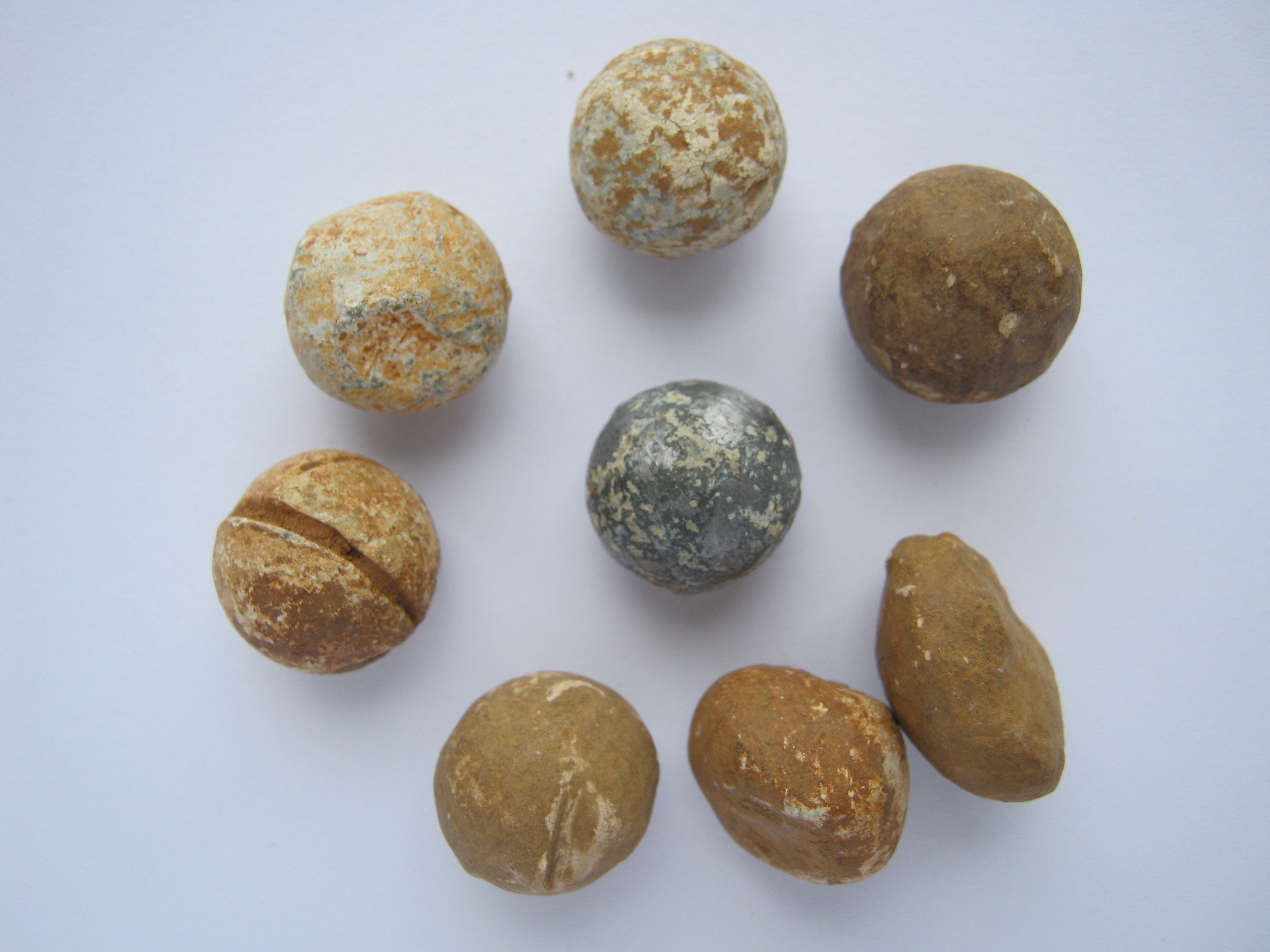 Musket balls found under the meadows at "Scuderia La Bellaria", Novi Ligure (where the Battle of Novi was fought in 1799) during a meeting of the Associazione Ricerca Storica in Italia. The ball at the center has been polished.